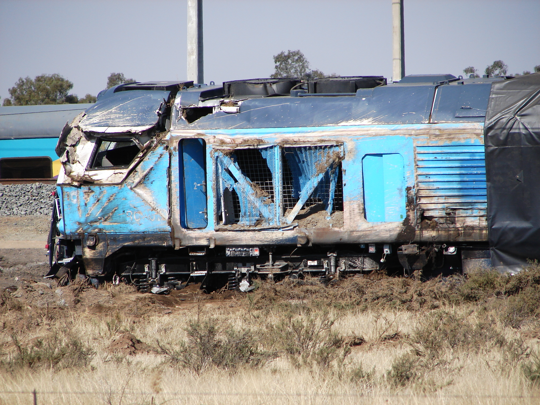 PRASA Class Afro4000 no. 4010, still lying virtually where it fell a month after it derailed on the Shosholoza Meyl at Modderrivier in the Northern Cape on 19 August 2015